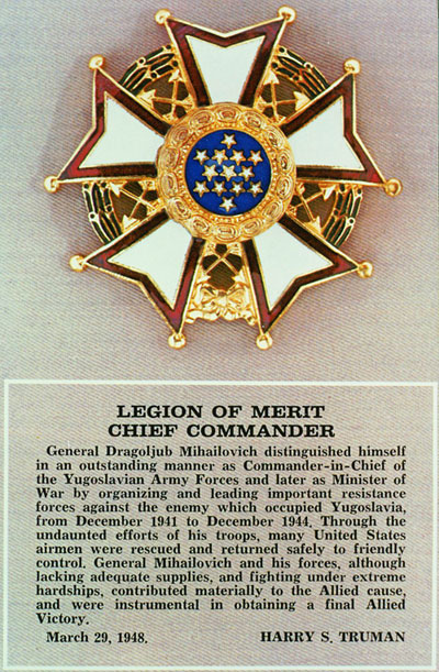 Legion of Merit for Genral Draža Mihailović.